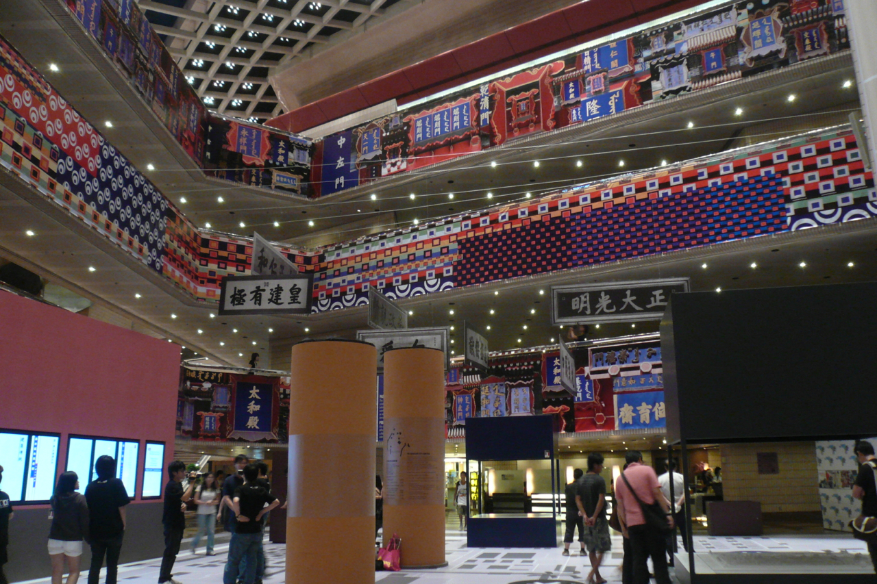 The Forbidden City Exhibition at Hong Kong Cultural Centre, presented and organized by Zuni Icosahedron in 2009 中文（香港）: 進念．二十面體於2009年在香港文化中心舉辦的「大紫禁城」展覽，為其場地伙伴計劃的首個節目。